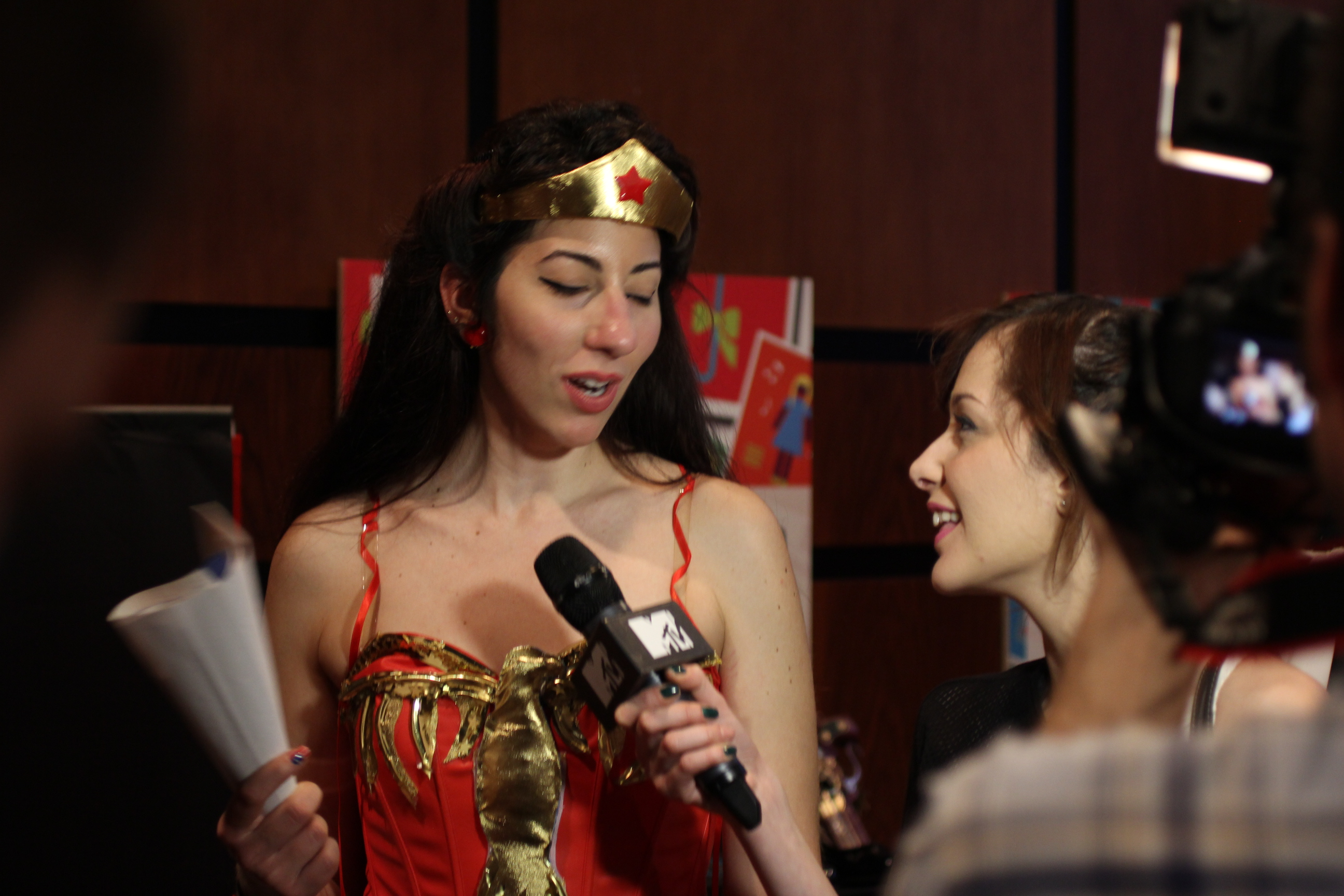 Cosplayers at Comicdom 2012, an annual public event held at Hellenic American Union in Kolonaki, Athens, Greece grant interviews to journalists from the MTV television channel.